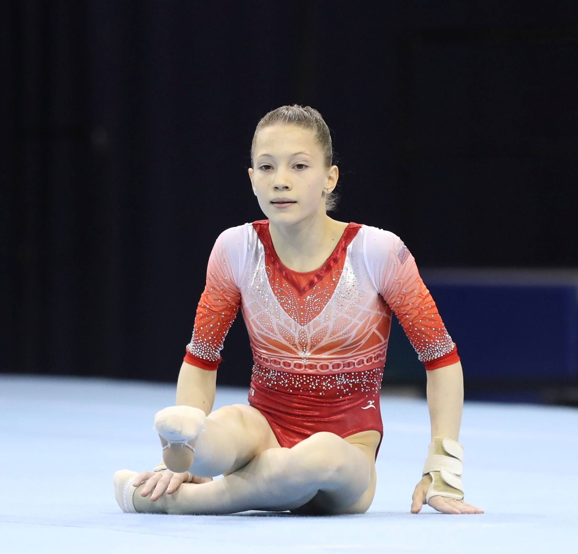 Floor exercise of subdivision 2 during the girls' all-around competition at the 1st FIG Artistic Gymnastics Junior World Championships on 28 June 2019 in Győr, Hungary. Depicted: Vladislava Urazova.